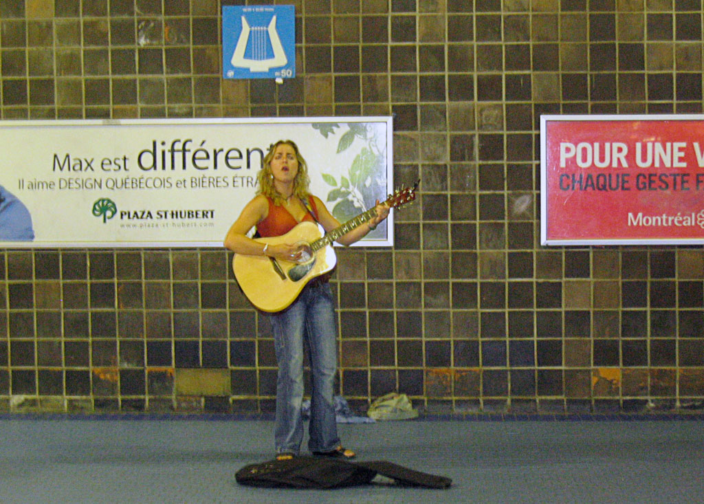 Musician in the Montreal subway.